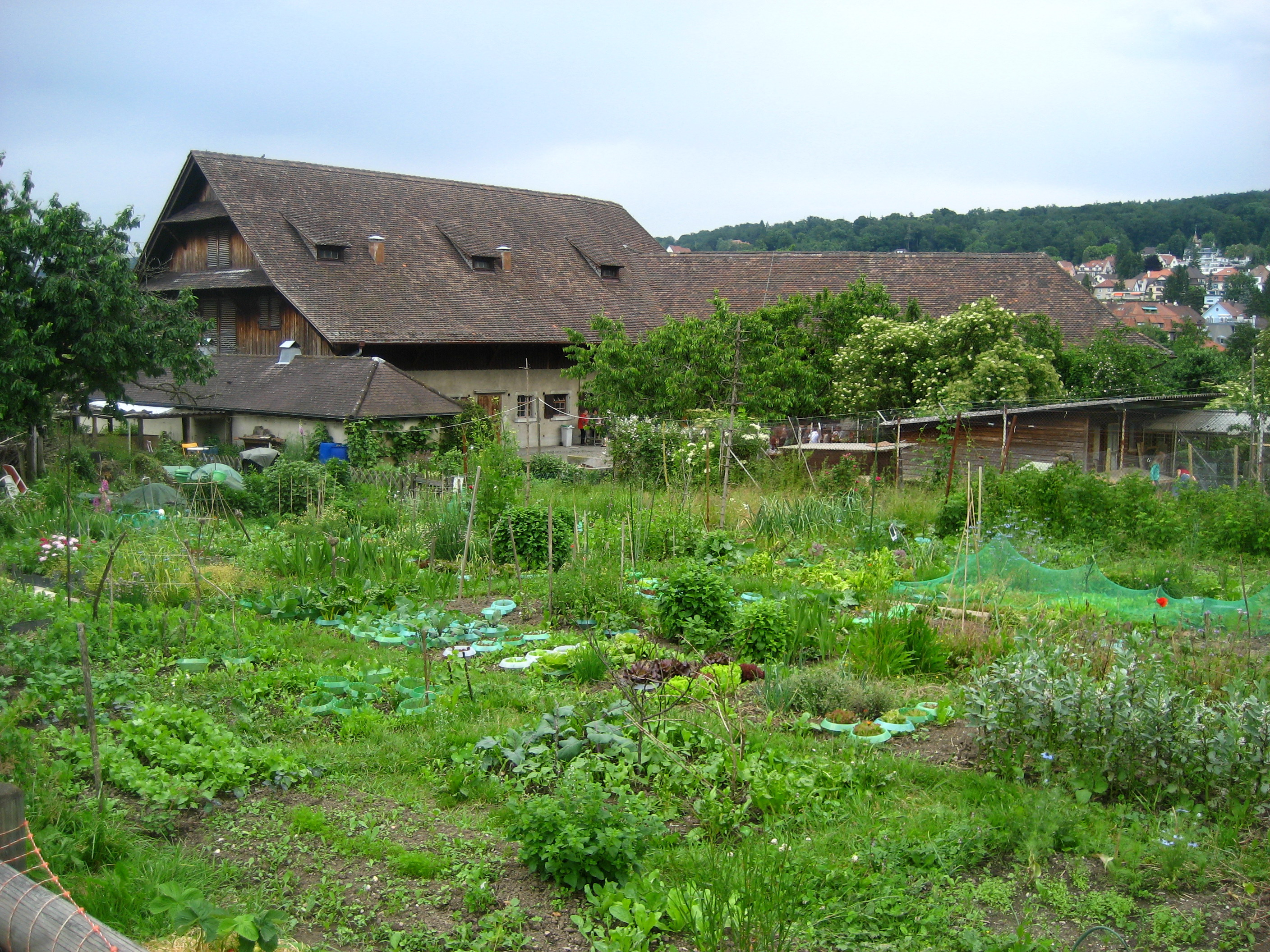 Zürich, Weinegg quarter (Riesbach, district 8) : Estate (Quartierhof) Weinegg.